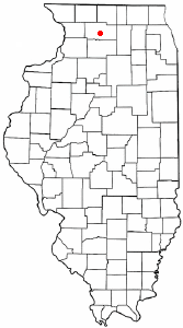 Category:Illinois city locator maps